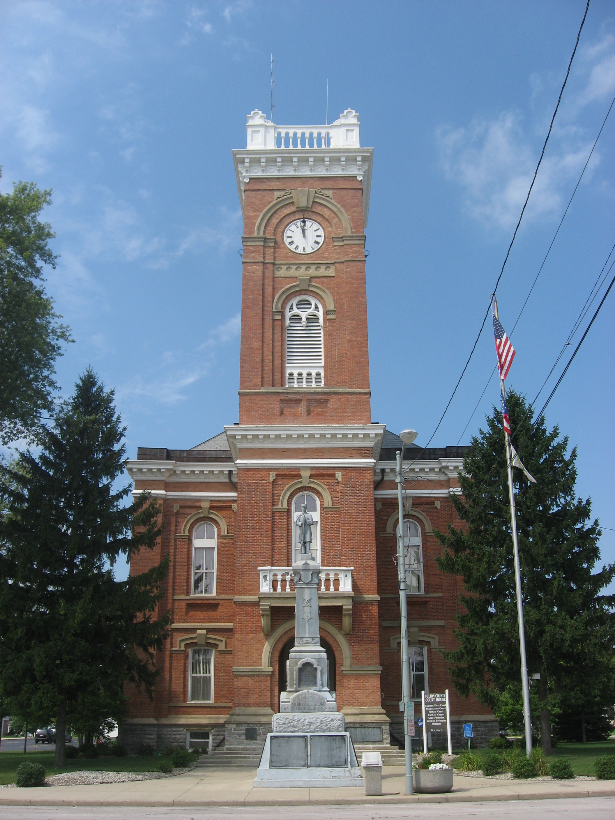 Front of the Fulton County Courthouse, located on the southwestern corner of the intersection of Fulton and Chestnut Streets in downtown in Wauseon, Ohio, United States. Built in 1870, it is listed on the National Register of Historic Places.